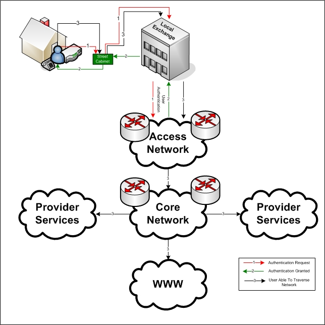 1: End-user's CPE (Customer Premises Equipment) makes an authentication request to the ISPs Access Network. 2: If successful, a success reply is returned to the CPE. 3: The end-user connects to and is able to traverse the ISPs Core Network and services.